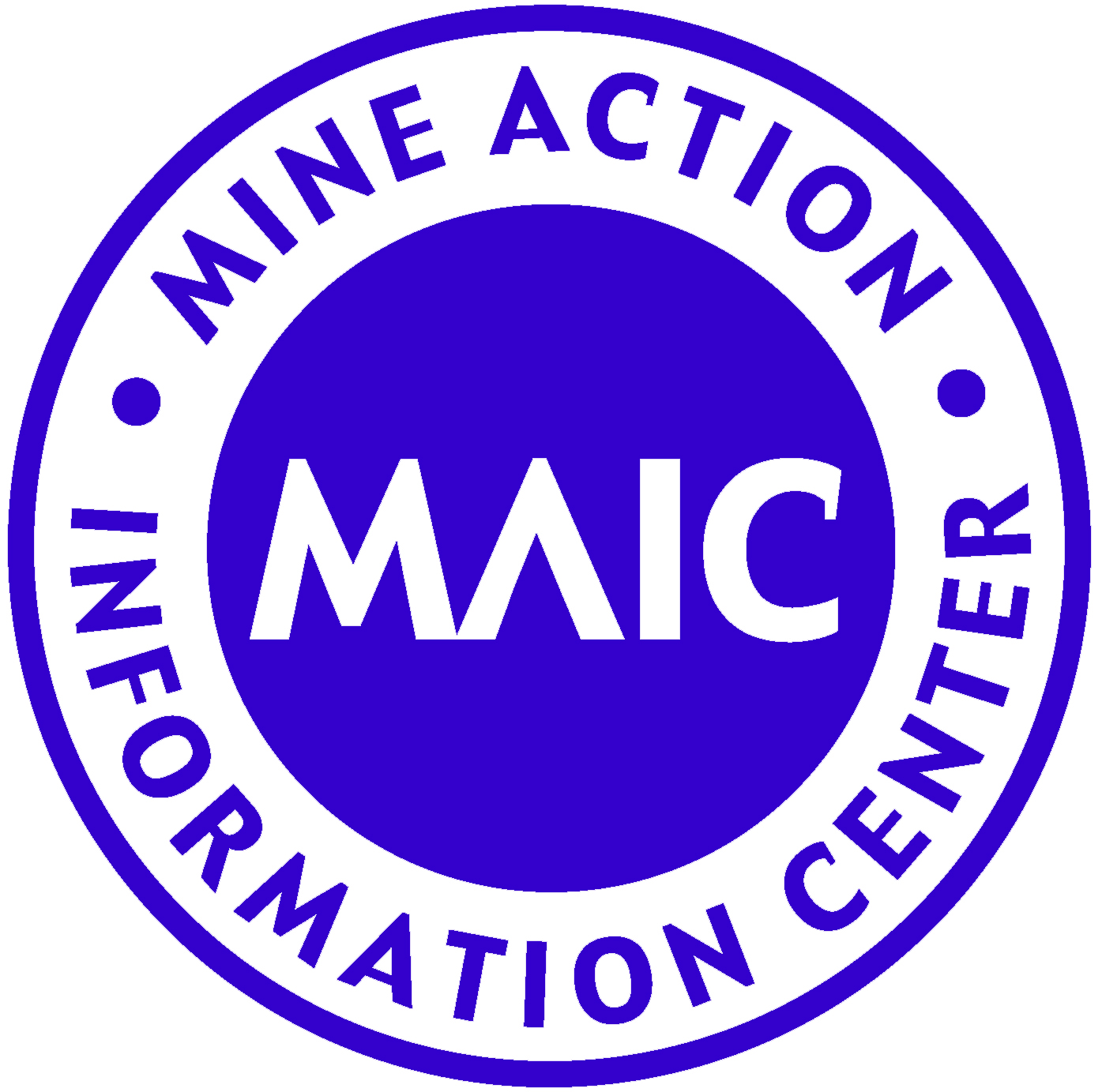 MAIC Logo